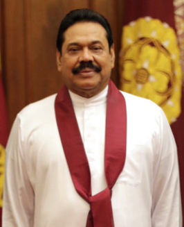 Photograph of 6th President of Sri Lanka,His Excellency Mahinda Rajapaksa.